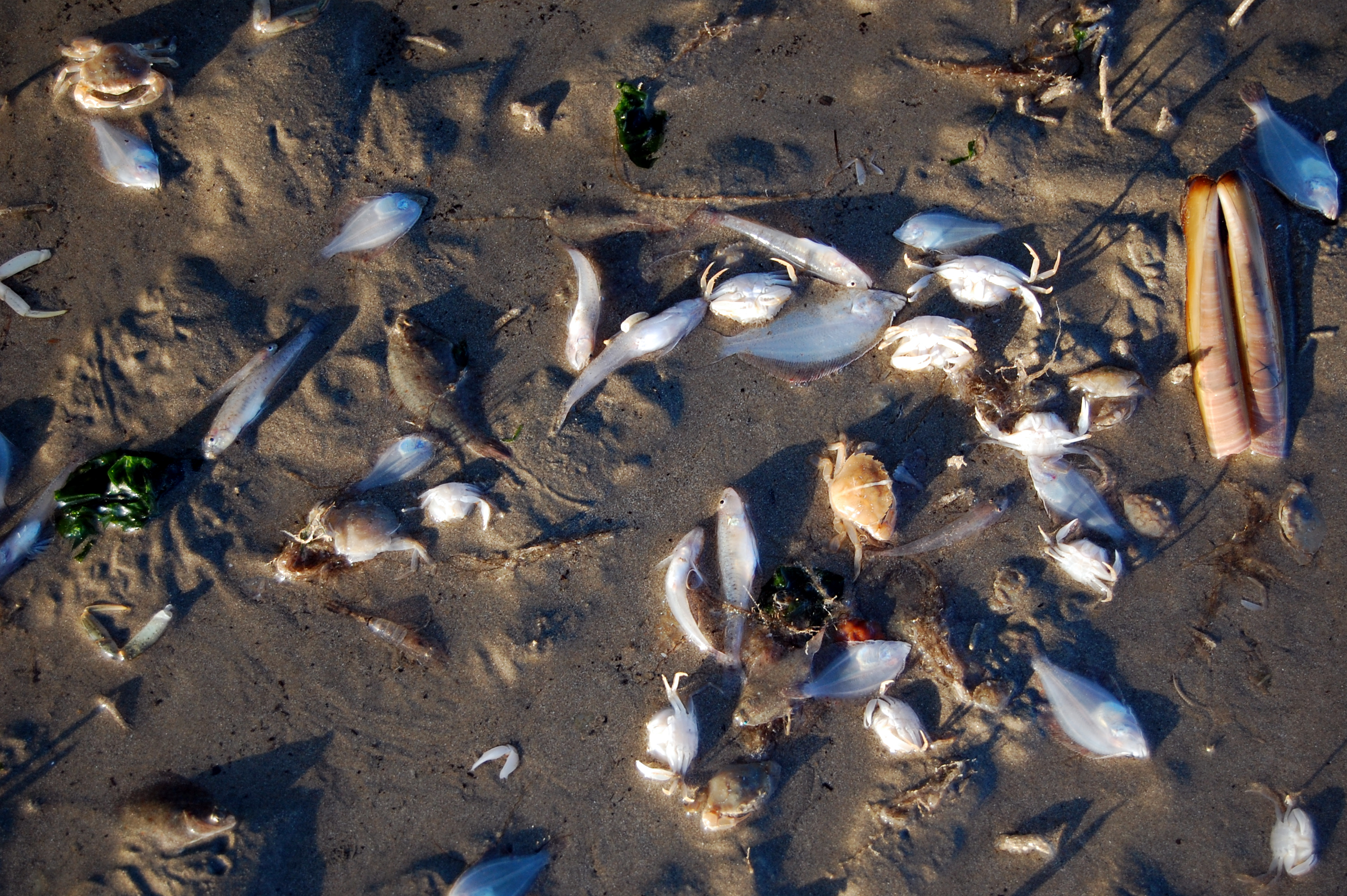 Bycatch from a shrimper in Heist, Belgium.